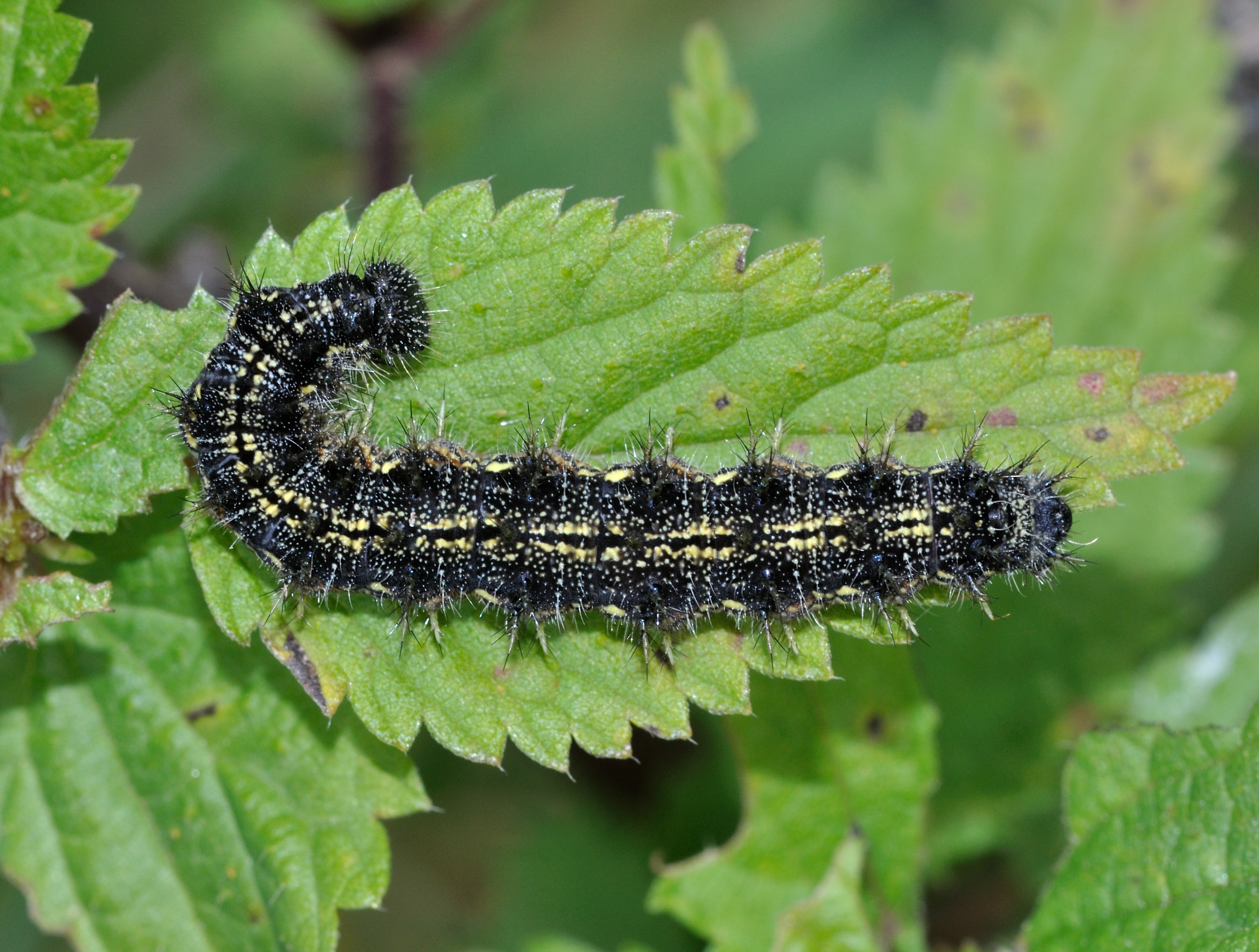 Caterpillar of a Small Tortoiseshell (Aglais urticae) on a Stinging Nettle (Urtica dioica) in Oberursel, Germany.